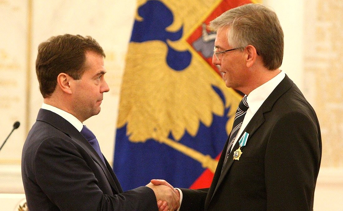 Manfred Schmidt, Head of the Department for Crisis Management of the Welfare Ministry of the Federal Republic of Germany, being decorated with the Order of Friendship by Russian President Dmitry Medevedev on 13 October 2010.